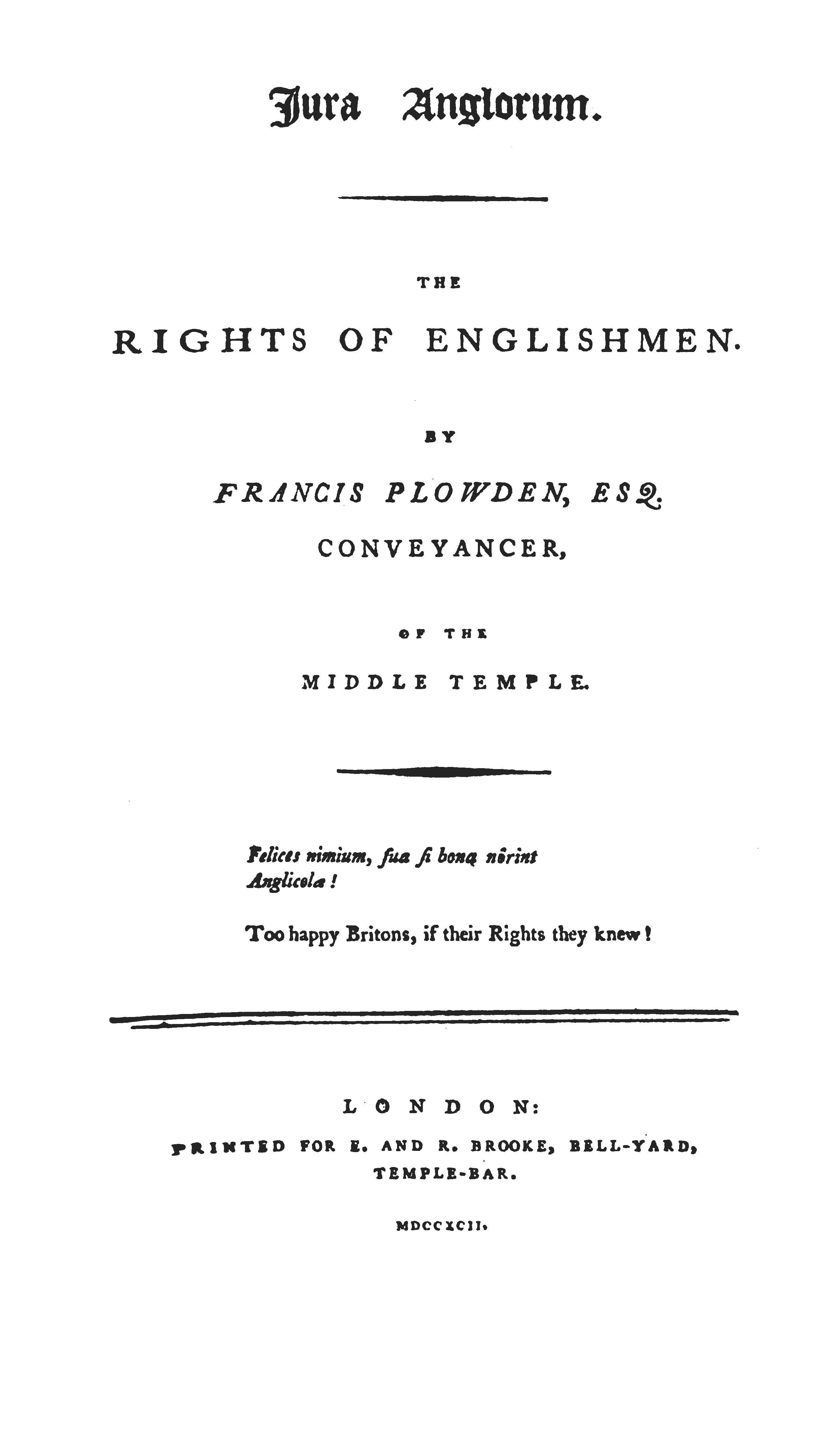 Title page of Francis Plowden (1792) Jura Anglorum: The Rights of Englishmen (1st ed.), London: Printed for E. and R. Brooke, Bell-Yard, Temple-Bar OCLC: 642282439.